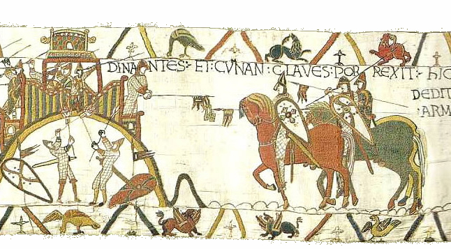 Bayeux Tapestry Scene 20